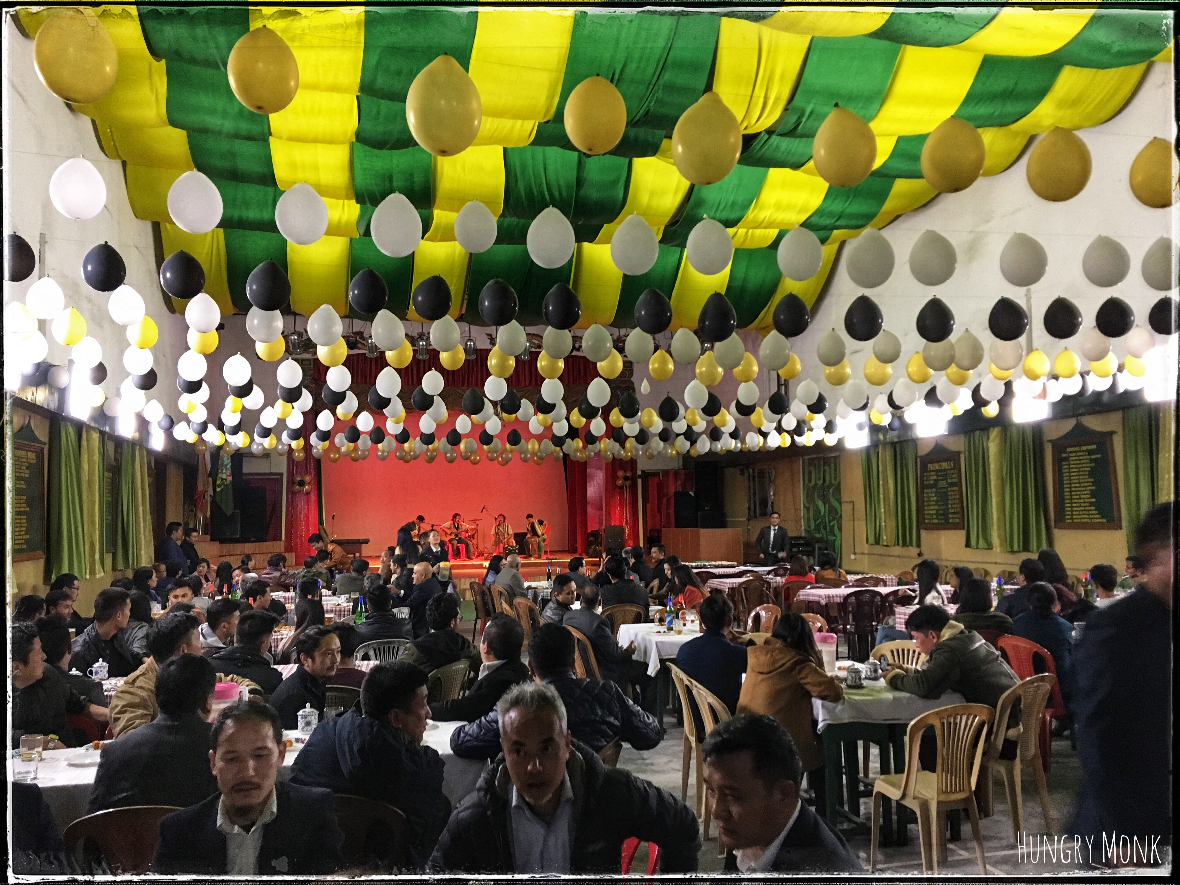 The Alumni Dinner 2018 was held at the main auditorium.